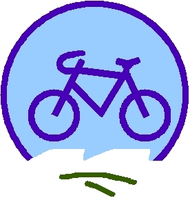 Logo of the North Sea Cycle Route in Europe